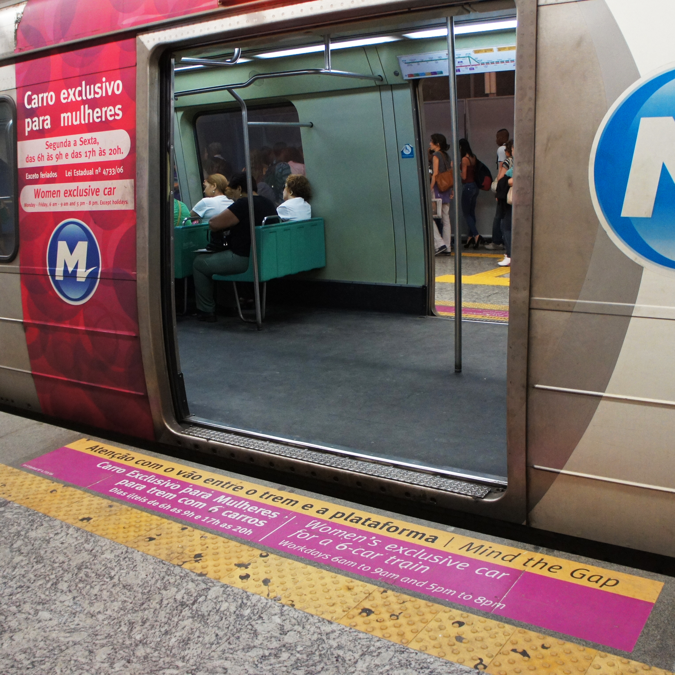 Women-only subway car at Rio de Janeiro Metro. During rush hours only women passenger are allowed in the subway car designated as such.